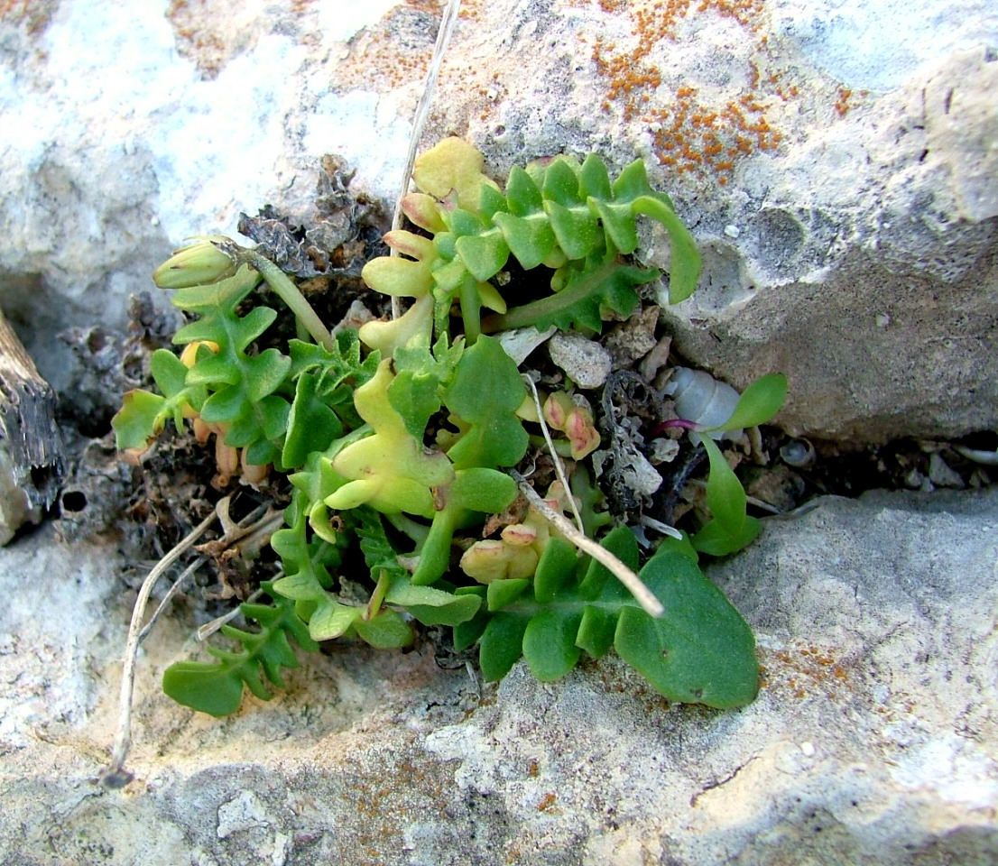 Hyoseris frutescens on rock crevices